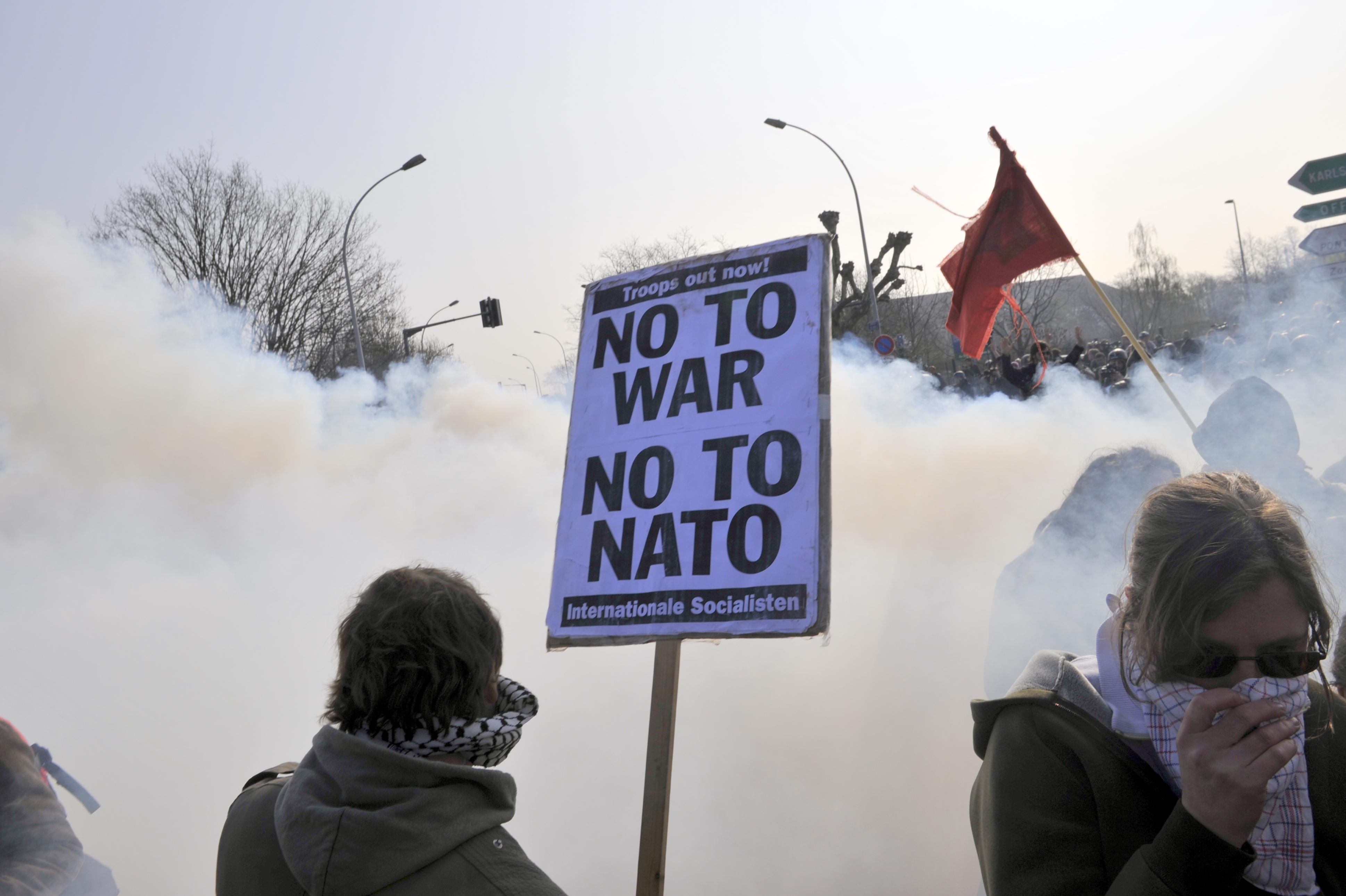 teargas.